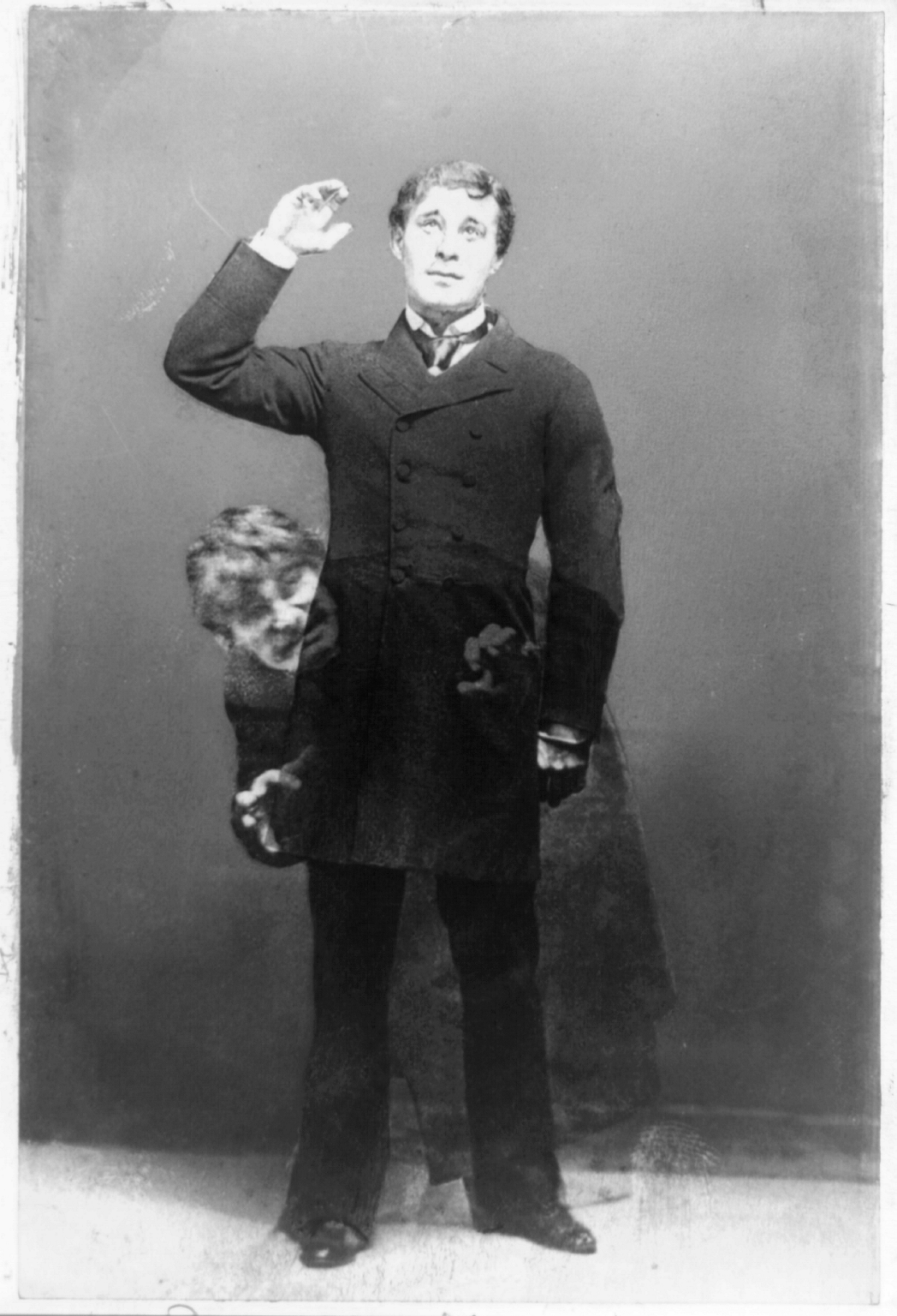 Richard Mansfield was best known for the dual role depicted in this double exposure: he starred in Dr. Jekyll and Mr. Hyde in both New York and London. The play opened in New York in 1887 and London in 1888.